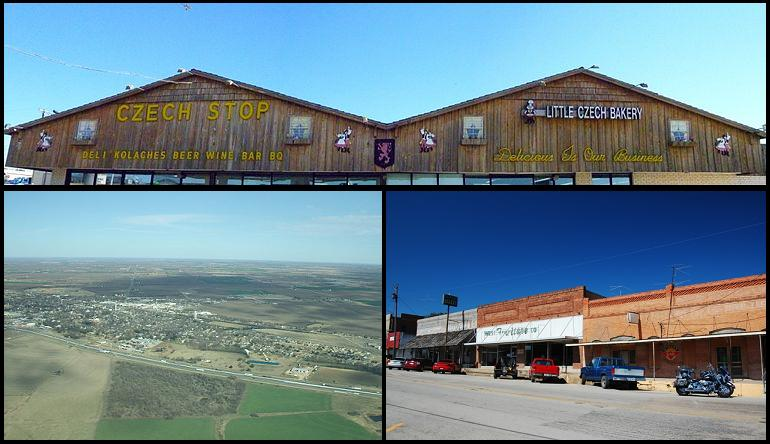 Collage of West, Texas